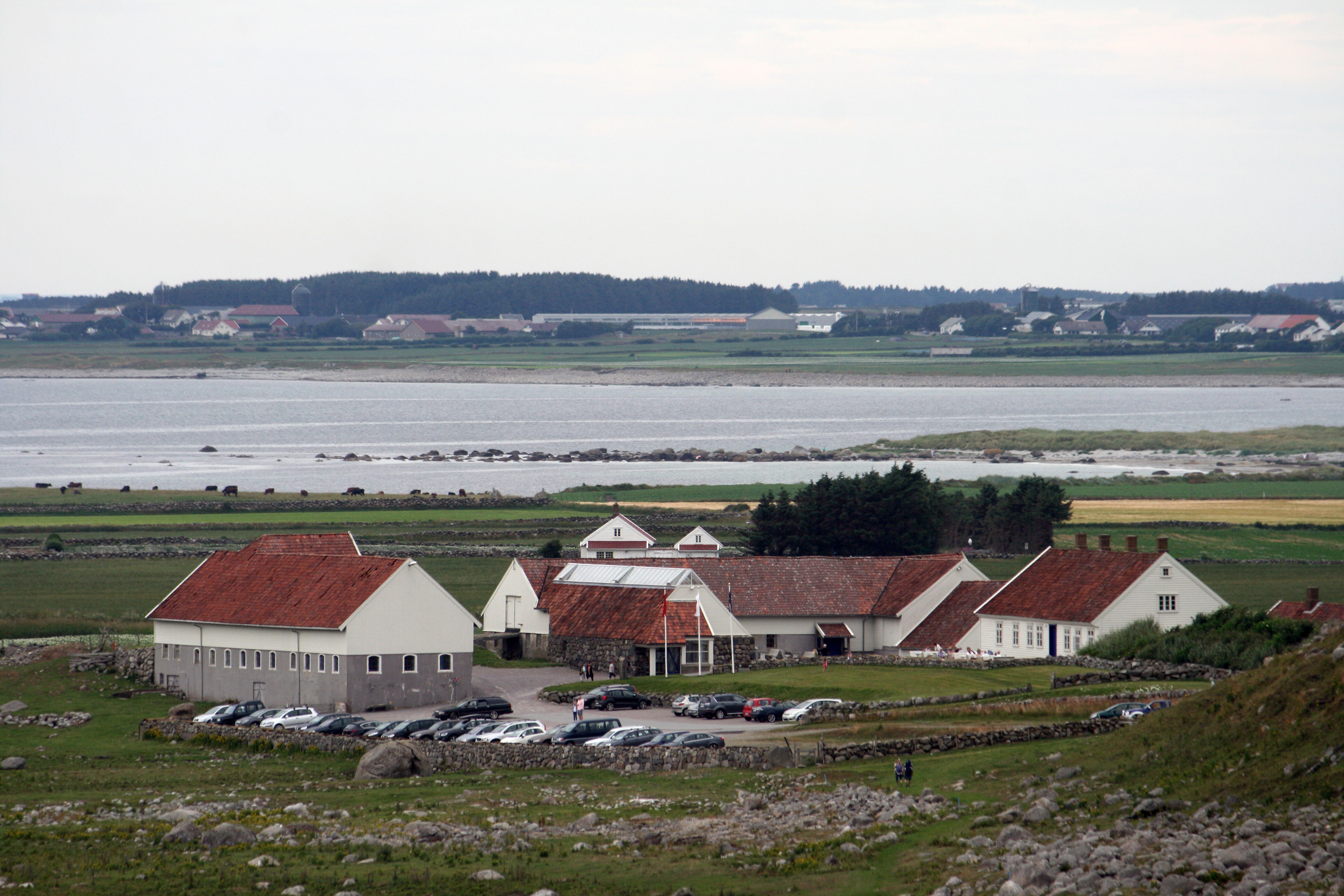 Hå old parsonage at Jæren, Western Norway. Now art and culture center. Oldest building from 1637. As seen from Obrestad lighthouse.